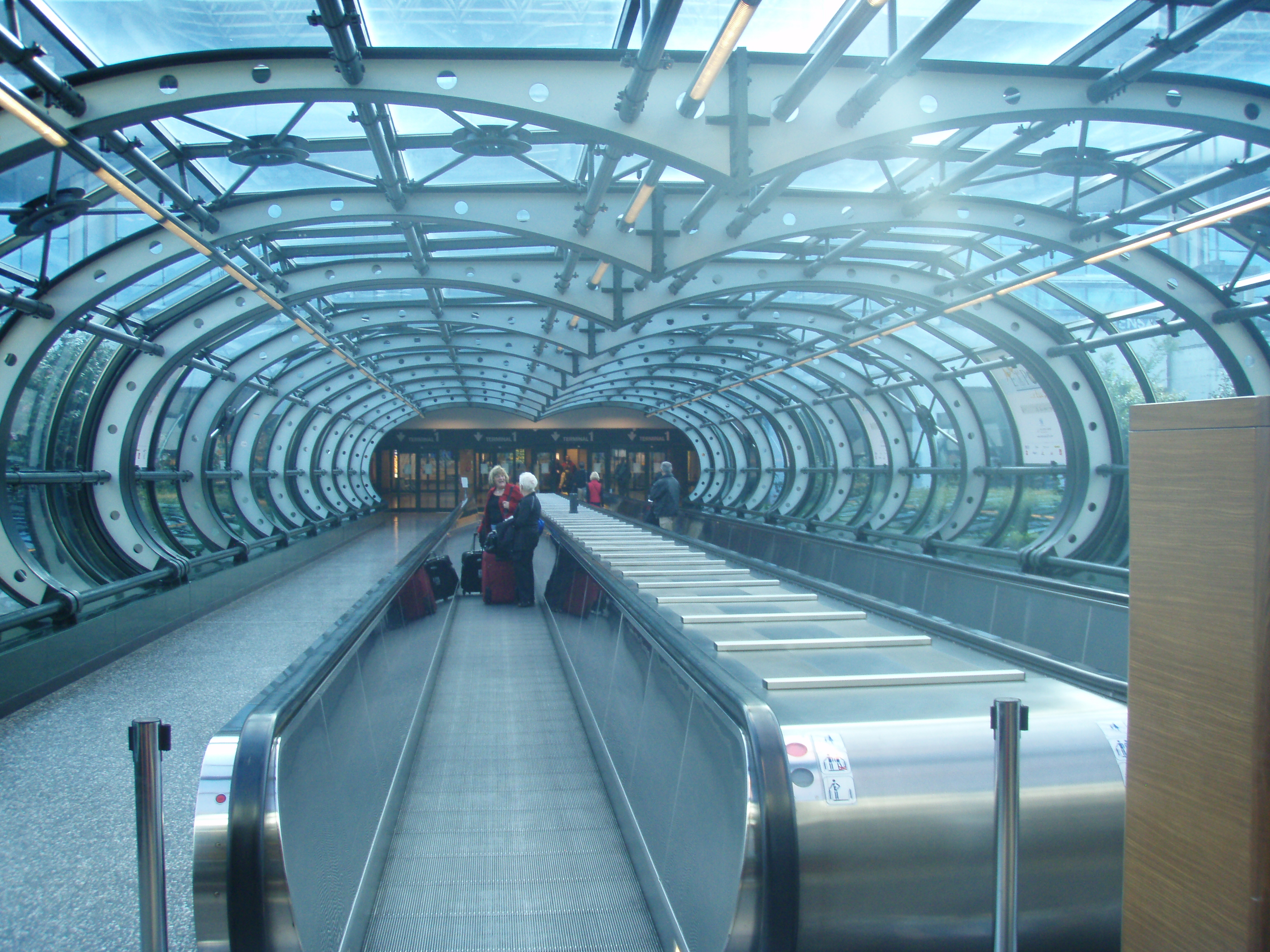 Passageway at Malpensa Airport between the train station and the terminal